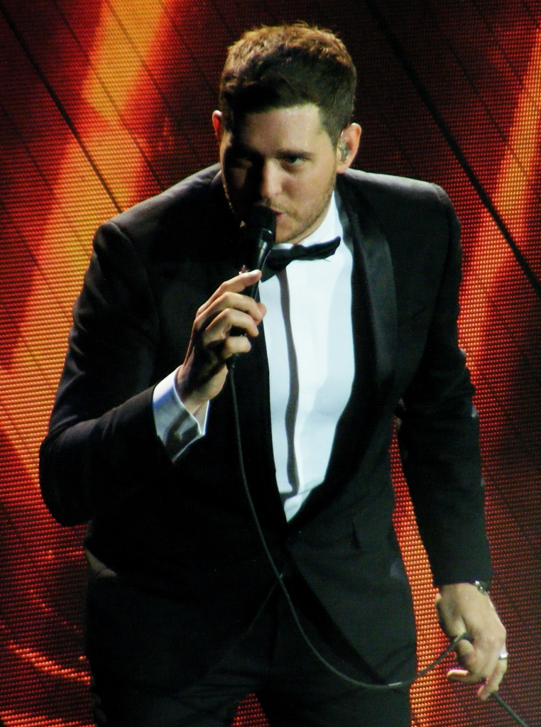 Michael Buble perfoming at the O2 Arena, London, on Wednesday 3rd July 2013 Michael Buble perfoming at the O2 Arena, London, on Wednesday 3rd July 2013